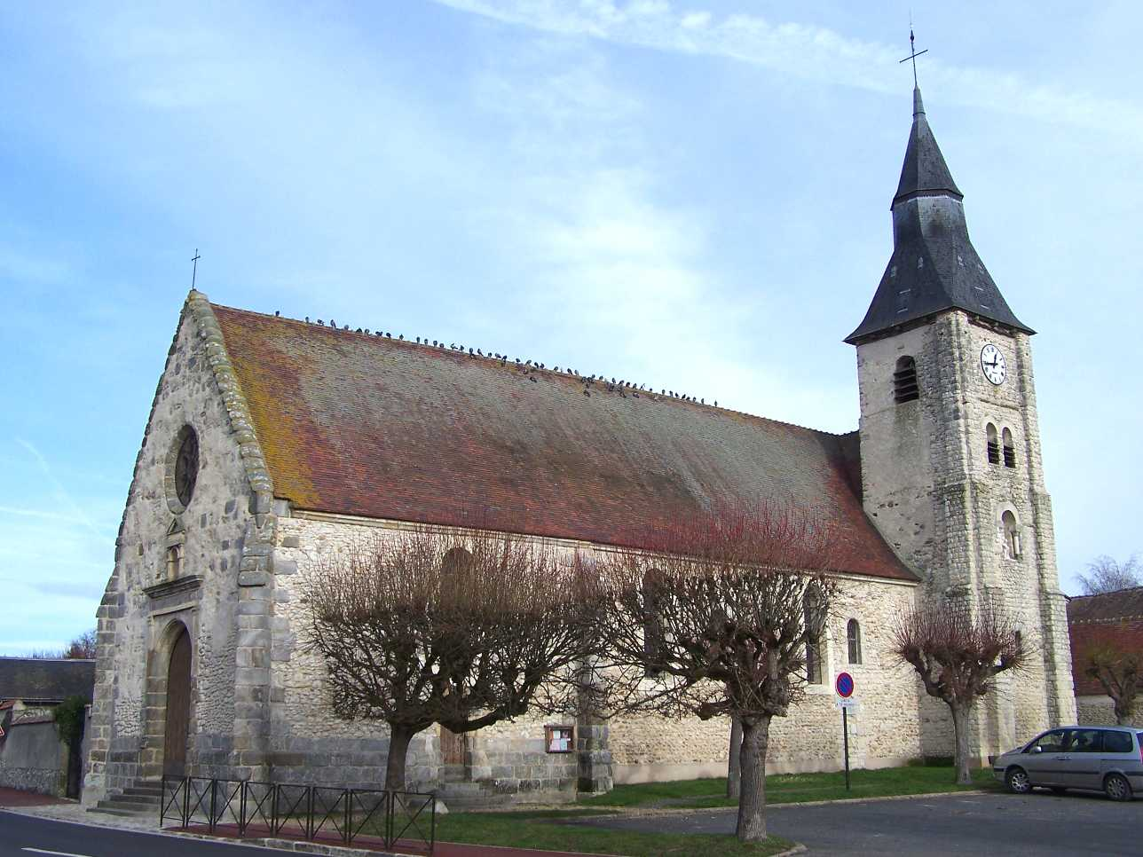 Church of Bourdonné (Yvelines, France)